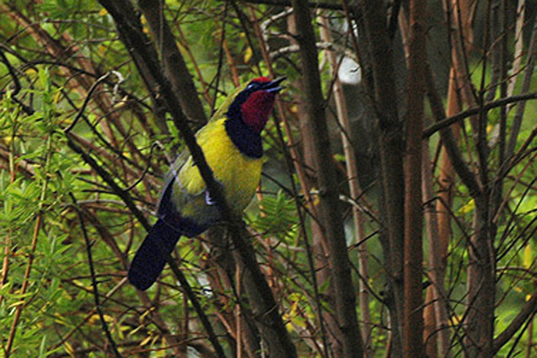 Uganda Doherty's Bush-shrike (Telophorus dohertyi)